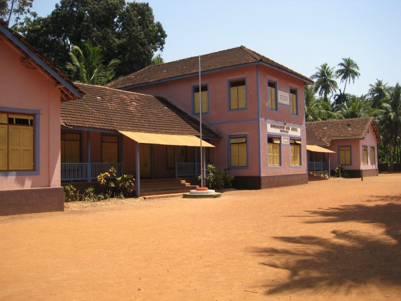 A.H. School-1943